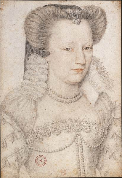 Portrait of Louise of Lorraine, queen of France.